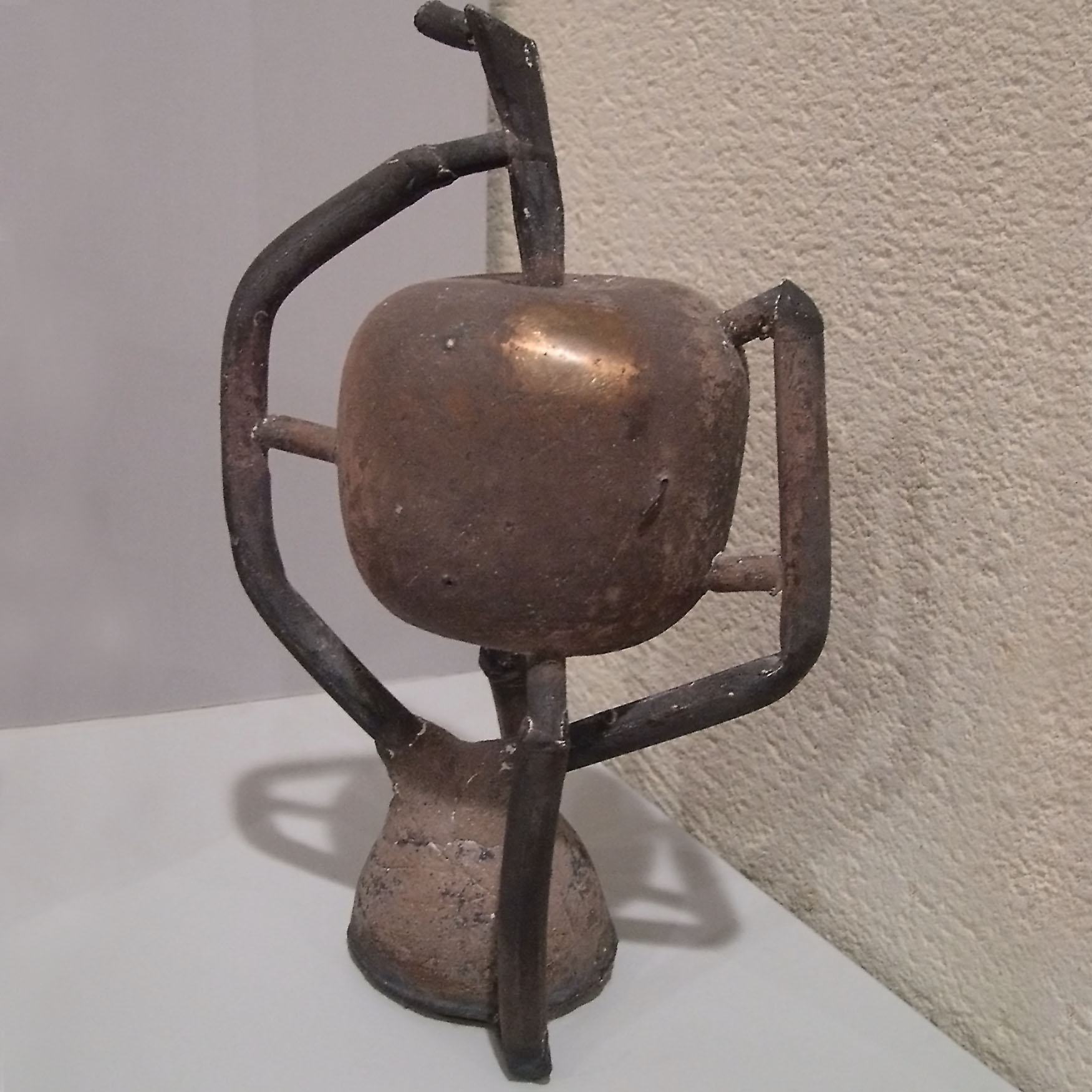 Lost Wax Casting: The sculpture of the apple, just extracted of its mold. Below is the funnel through wich the bronze was poured (upside down). Step 5 of the lost-wax bronze casting process